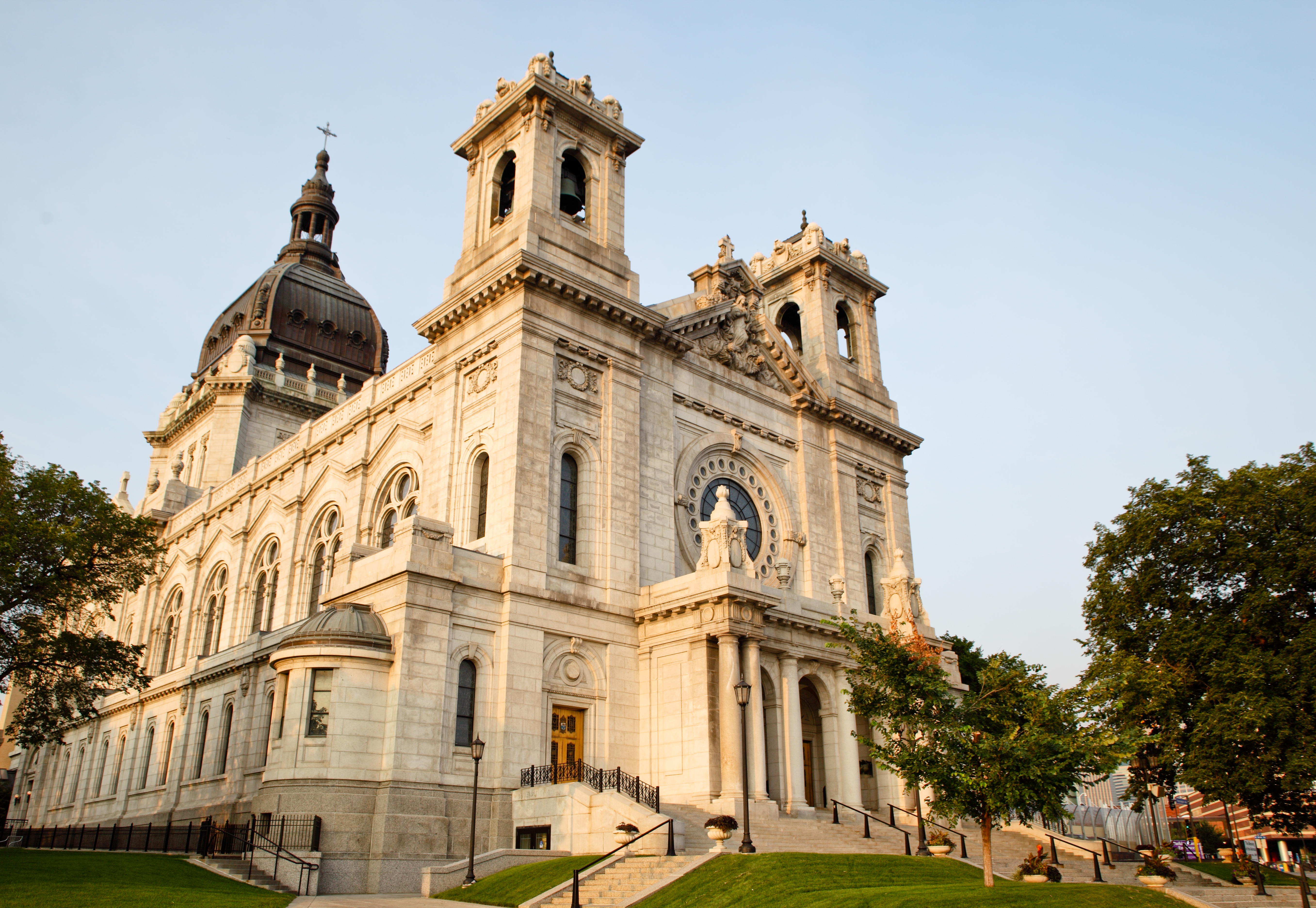 An up-close view from the steps of St. Mary's Basilica, taken around sunset time